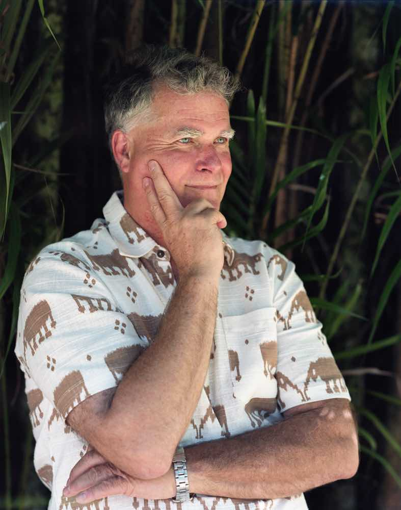 film director David Irving in garden